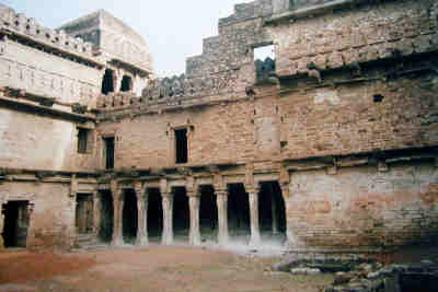 View of Chanderi Fort Image by LRBurdak.